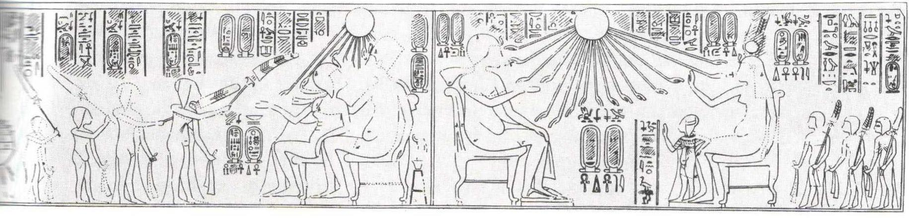 The royal families of Akhenaten and Amenhotep III. On the left: Akhenaten and Nefertiti with their daughters Meritaten, Meketaten, Ankhesenpaaten and Neferneferuaten; on the right: Amenhotep III and Tiye with their youngest child Beketaten. Amarna tomb of Huya.